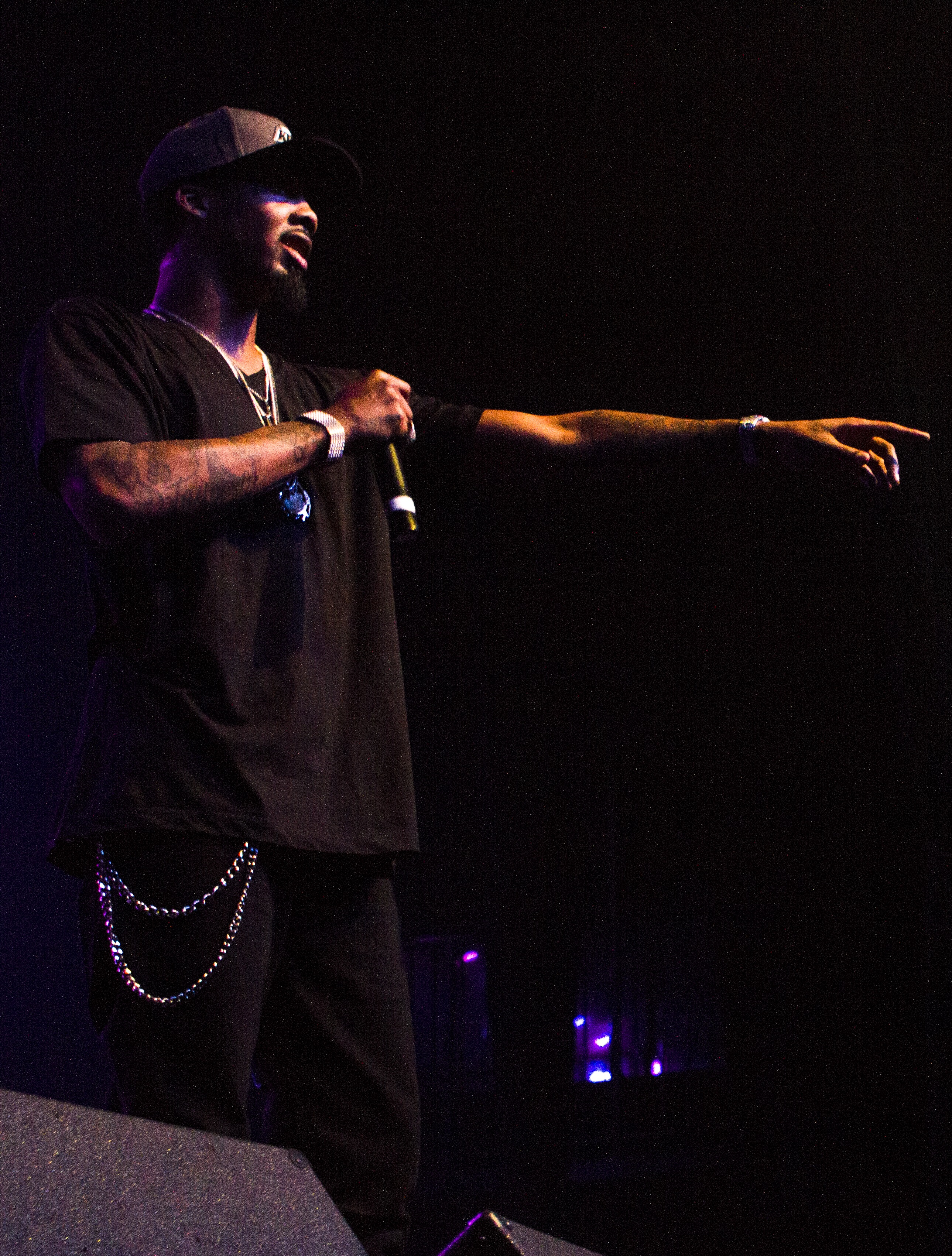 Image of American rapper Chevy Woods during December 2013, cropped from original